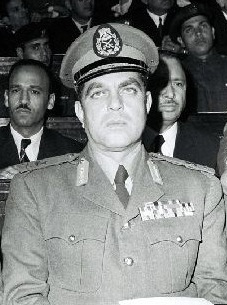 Field Marshal Ahmed Badawy Commander in Chief of the Egyptian Armed Forces